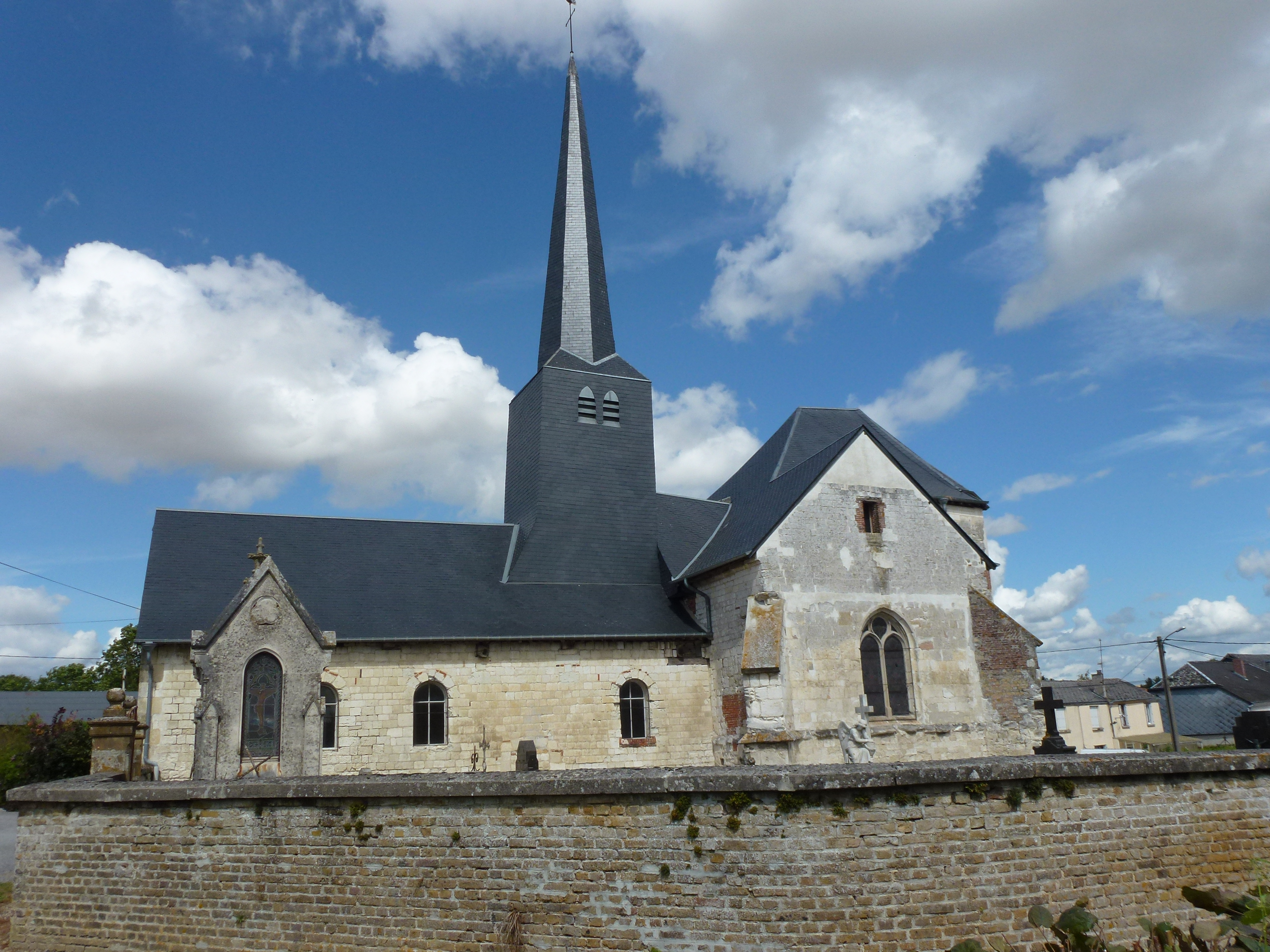 Écly (Ardennes) église, vue latérale